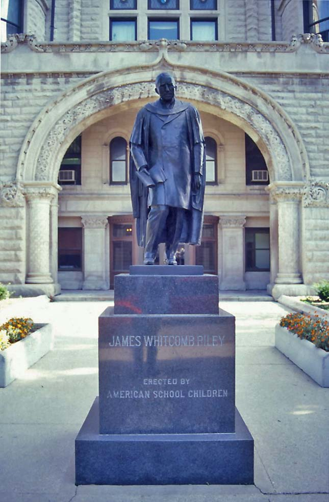 My photo of Myra Richards sculpture of James Whitcomb Riley